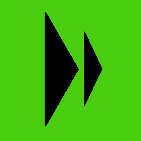 Own Worlk